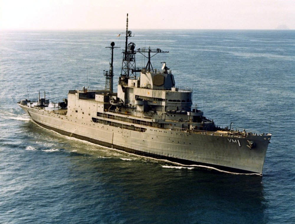 USS Norton Sound (AVM-1) at sea bound for Mazatlán. Ship shown after the SPY-1A Aegis Combat Information System was installed.